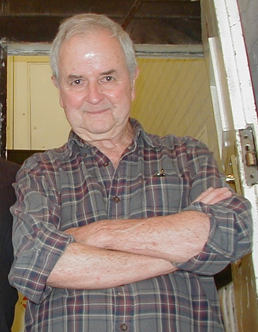 Cropped photo of Rodney Bewes